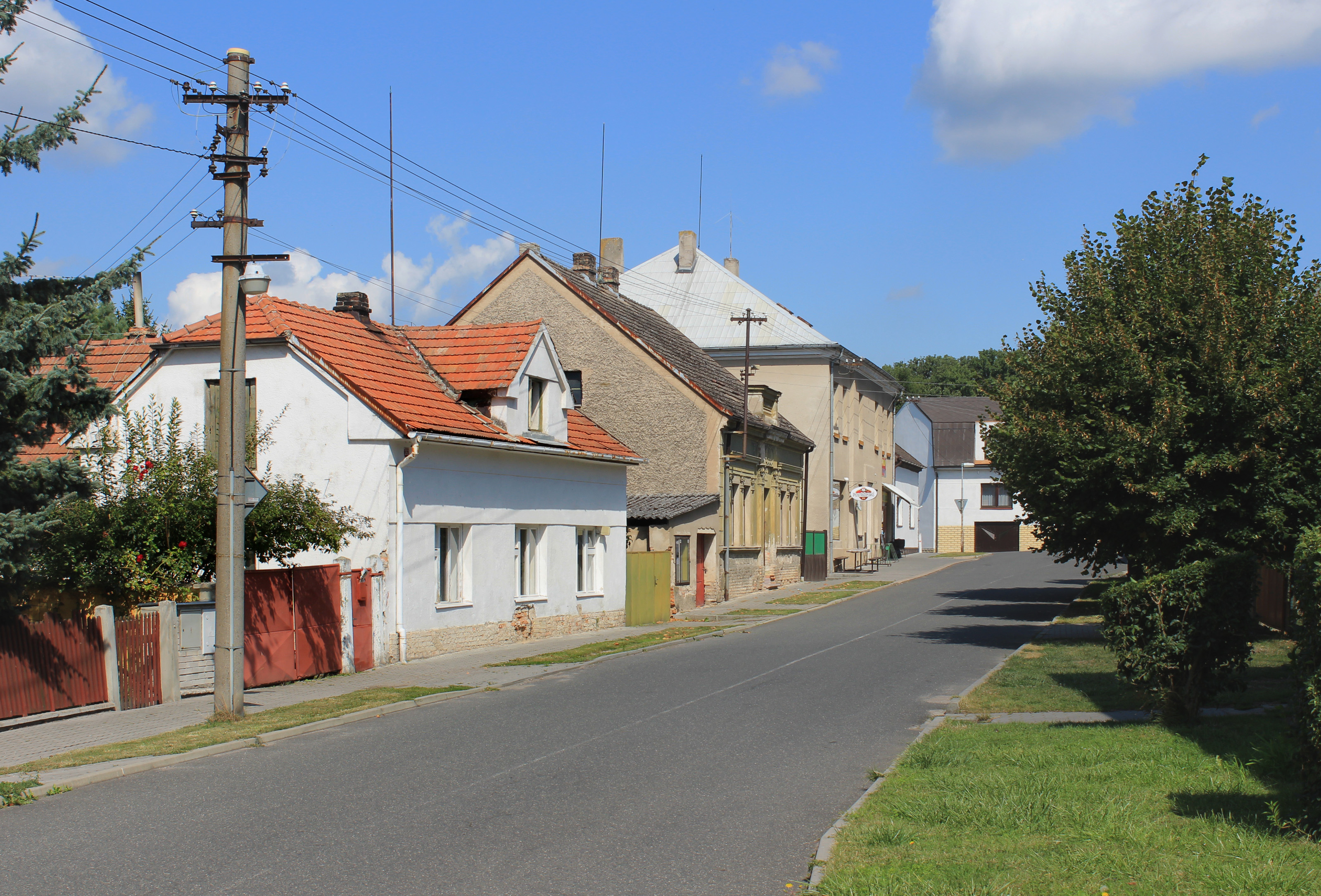 Revoluční street in Dymokury, Czech Republic.